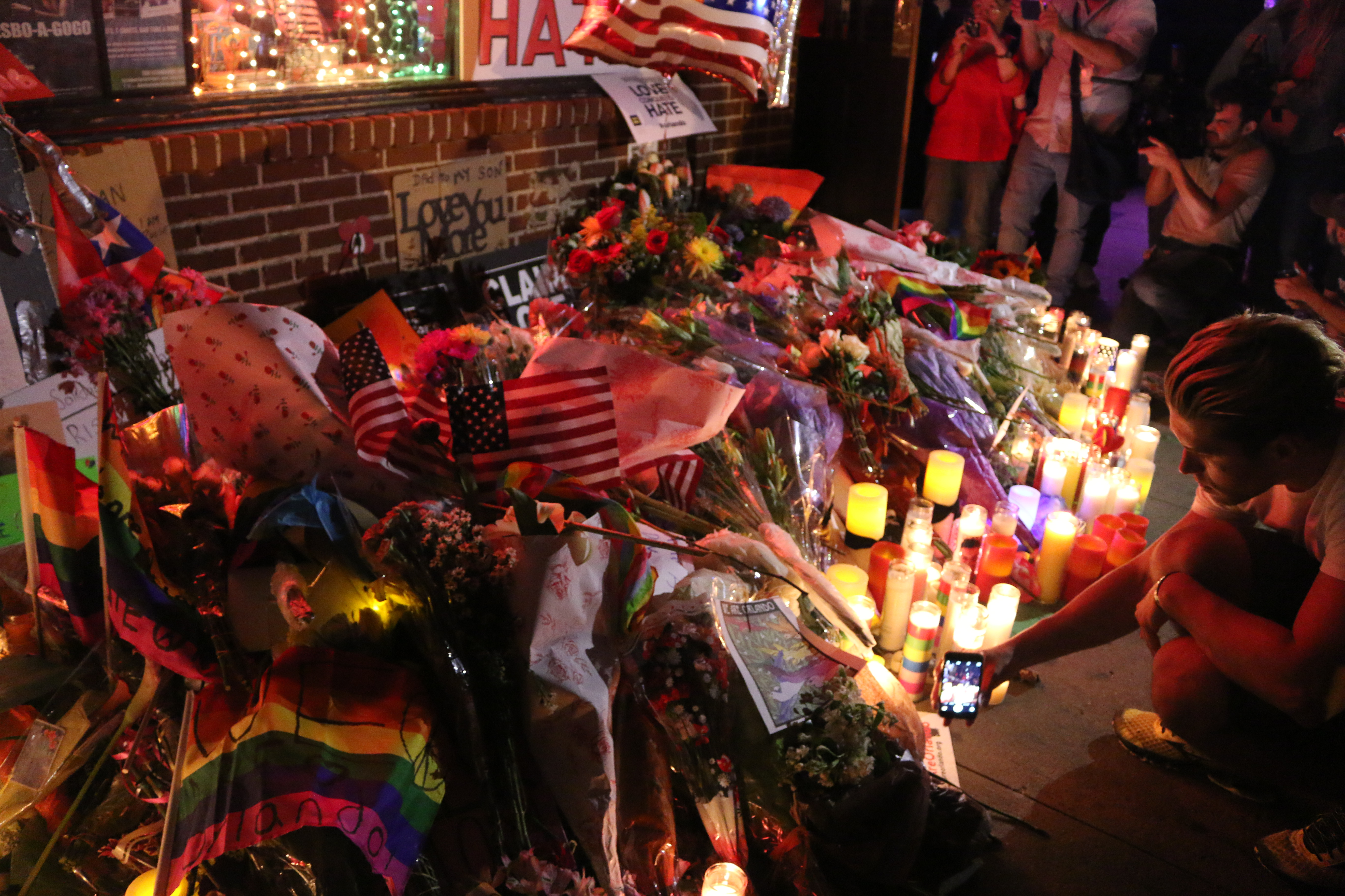 Vigil in support of the victims of the 2016 Orlando nightclub shooting, The Stonewall Inn, New York City